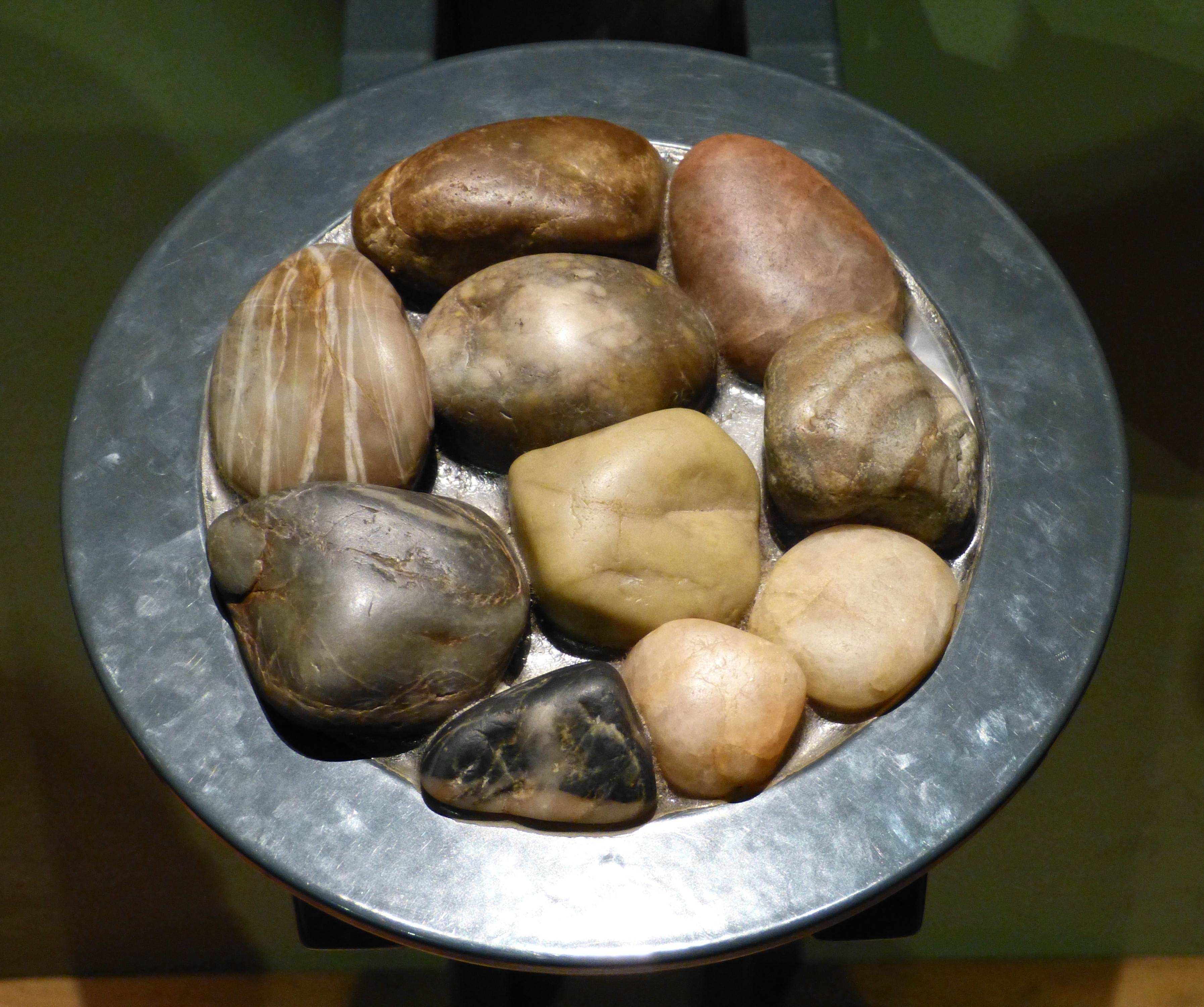 Natural History Museum, Vienna. Gastroliths from the stomach of a herbivorous sauropod, from Oklahomah ( USA ).